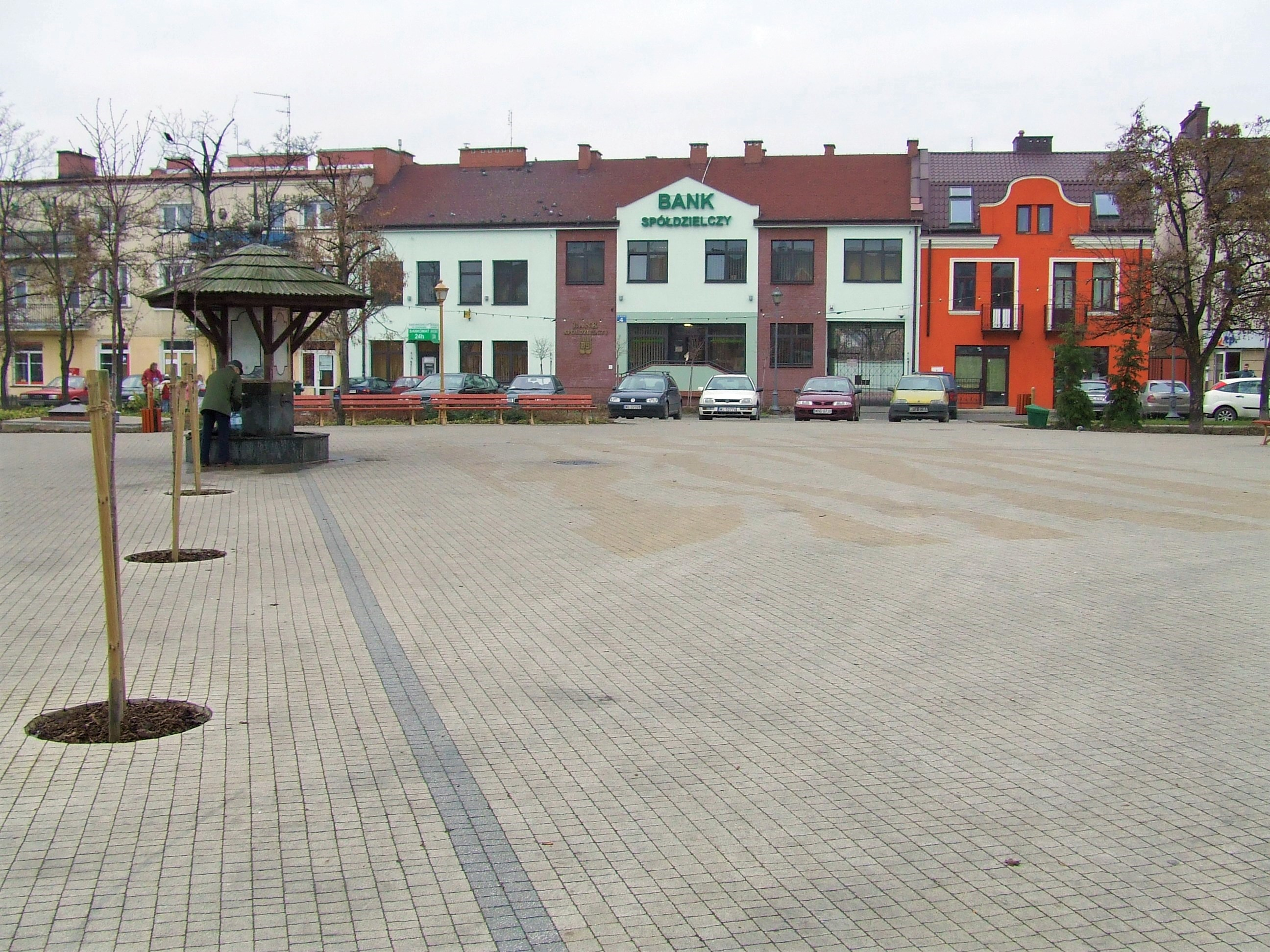 Legionowo, Main square in old part